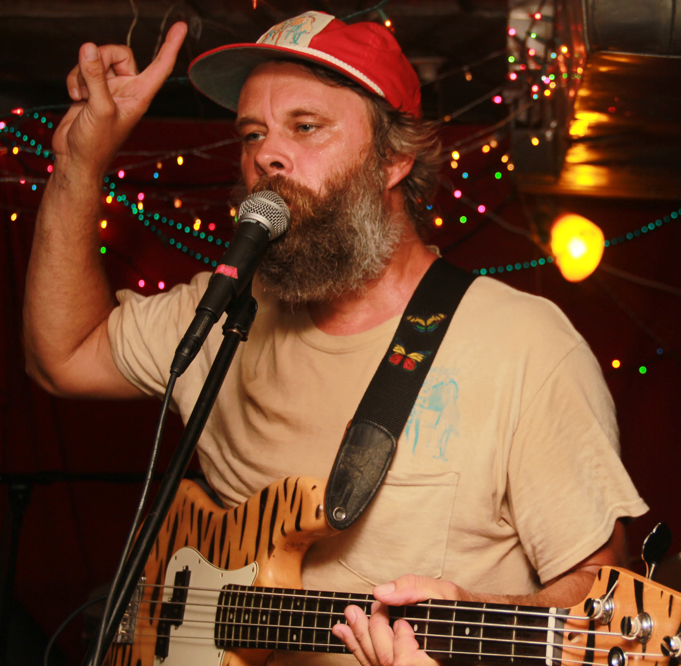 Little Wings' singer Kyle Field performing at a house concert in West Philadelphia.